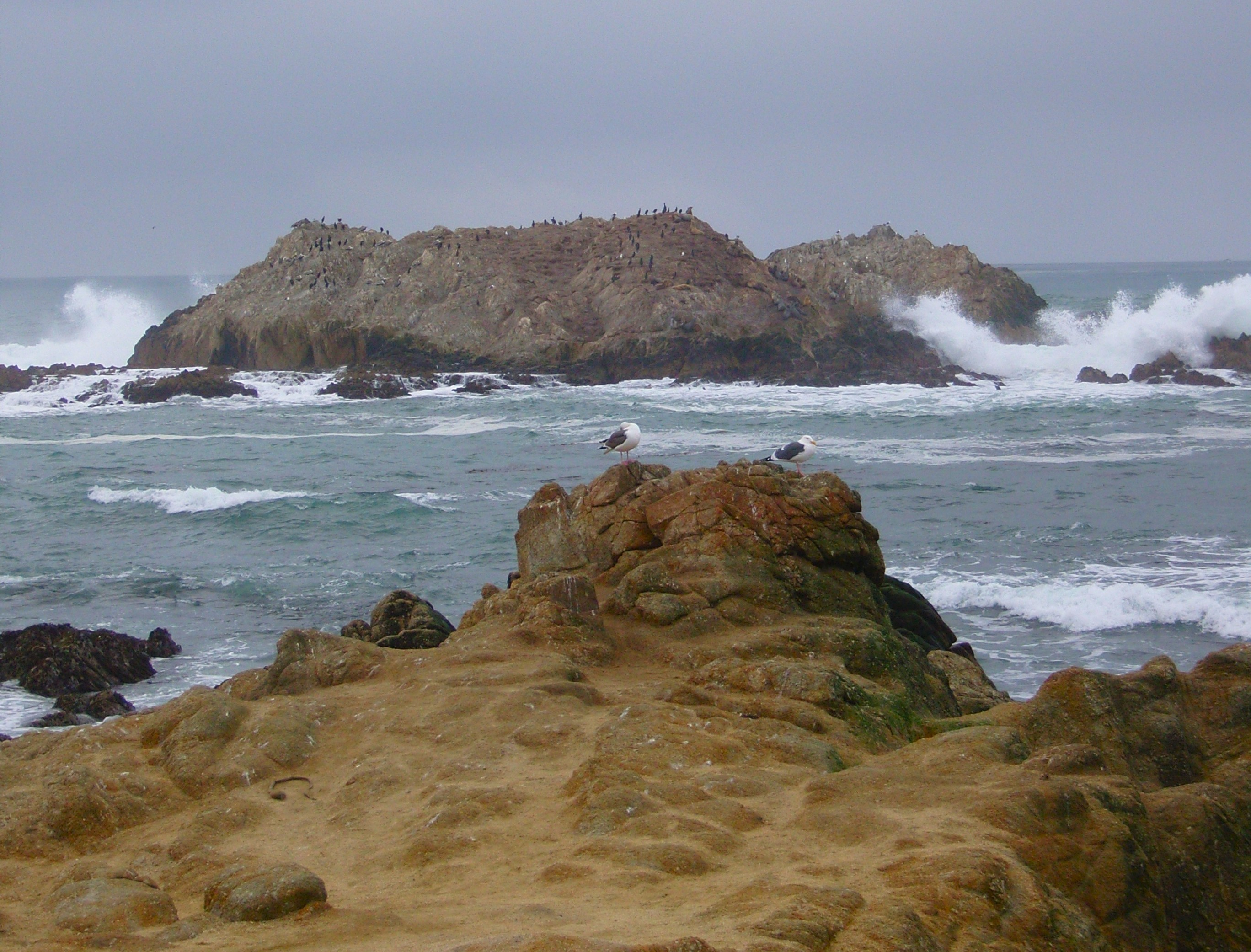 17-Mile Drive Bird Rock, California.